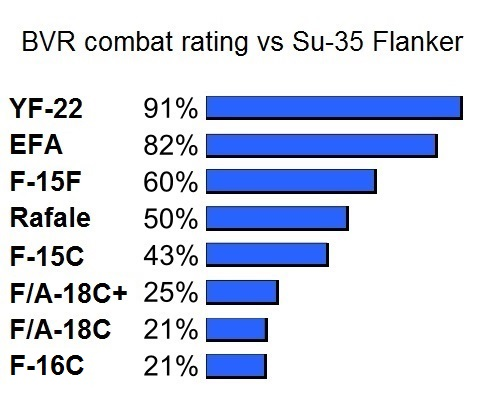 Results of the so called "DERA-study" which never existed. In real, BAe and DRA conducted simulated air battles against upgraded Su-27 Flankers (comparable to an Su-35 Super Flanker, early version). BAe went 1-vs-1 and 2-vs-2, DRA the more relevant stuff 3-vs-3 up to 8-vs-8. The results shown here are the results of BAe's mini-battles. Massed air battles by DRA shown a bit different, although comparable result.